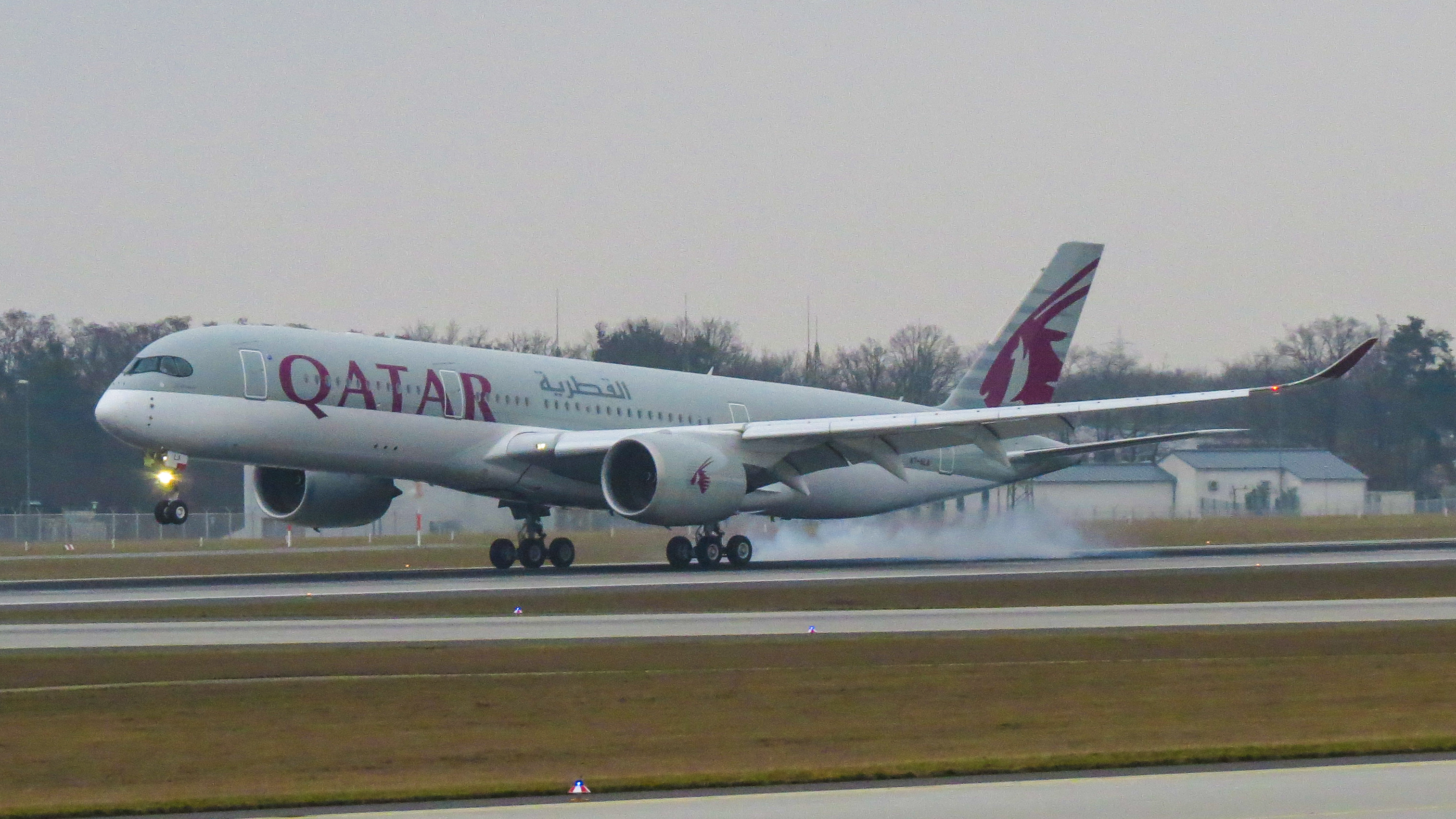 Qatar Airways Airbus A350-941 A7-ALA